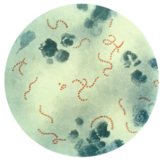 Photomicrograph of Streptococcus pyogenes bacteria, 900x Mag. A pus specimen, viewed using Pappenheim's stain. Last century, infections by S. pyogenes claimed many lives especially since the organism was the most important cause of puerperal fever and scarlet fever. Streptococci